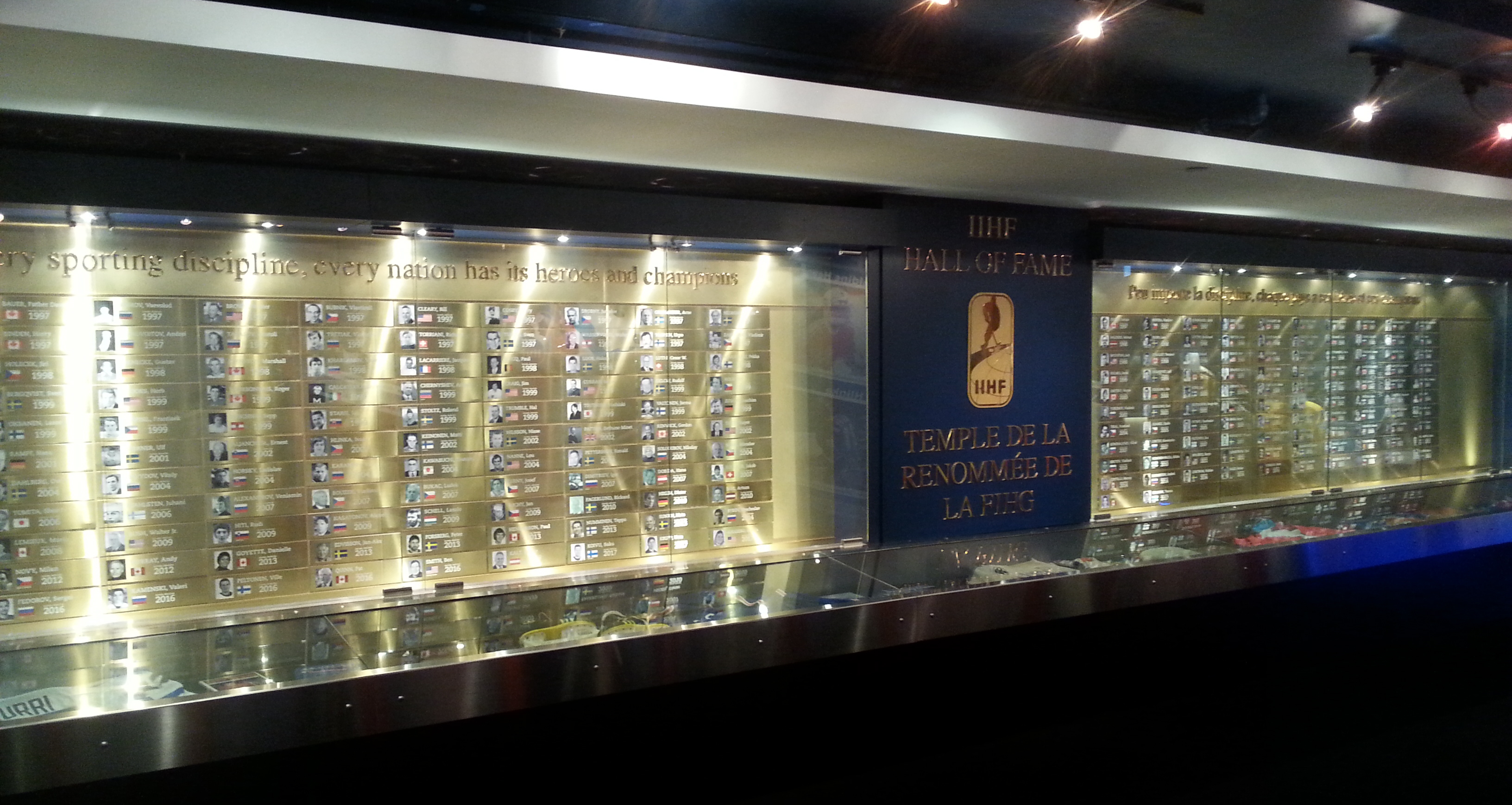 IIHF Hall of Fame wall of honour